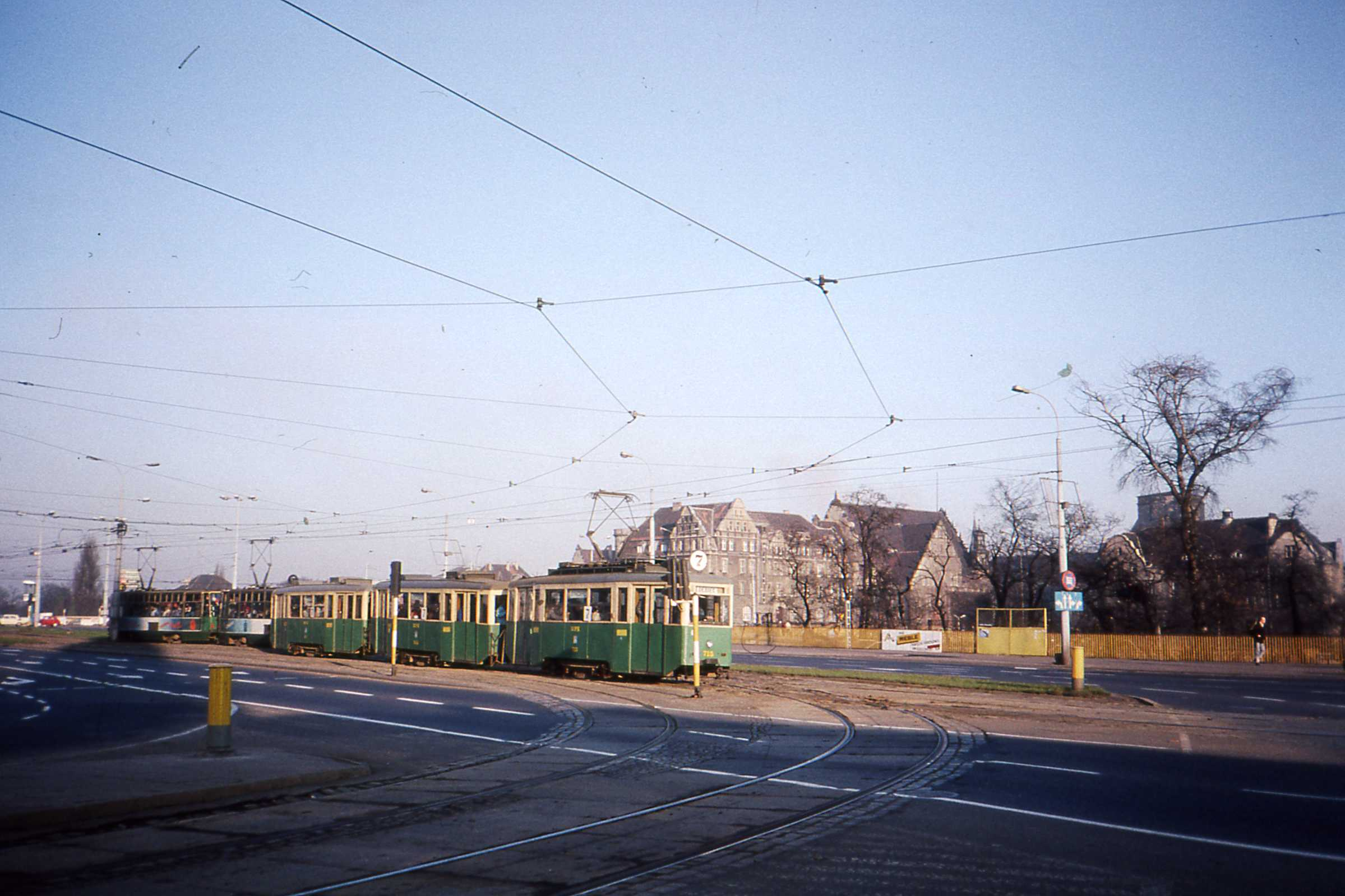 A three car set, led by motor car no 715 on Route 7.